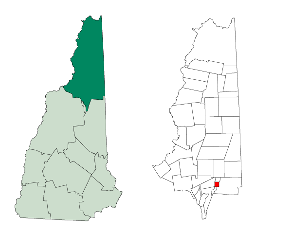 Map of a municipality in Coos County, New Hampshire